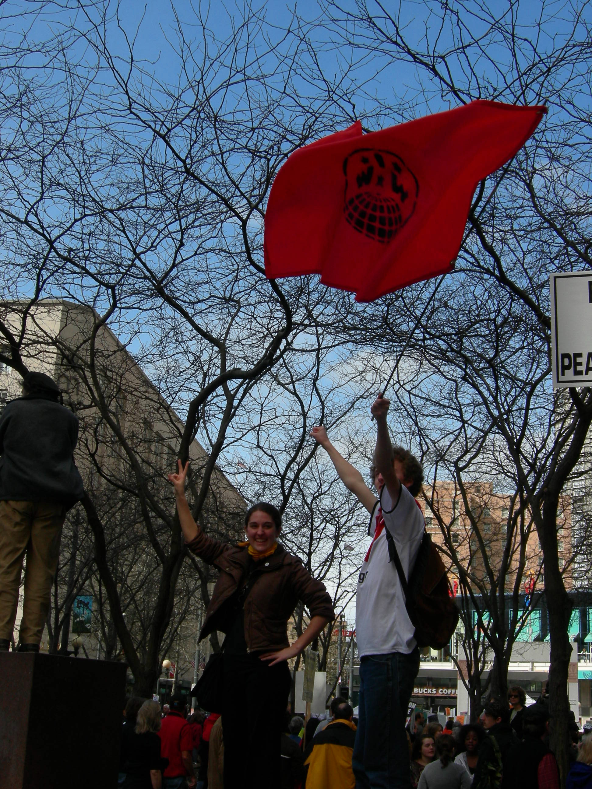 Anti-war demonstration in Seattle, Washington. 18 March 2007. IWW flags.